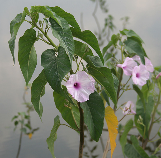 Pink Morning Glory, Bush Morning Glory, Morning Glory Tree, Badoh Negro, Borrachero, Matacabra Ipomoea carnea in Narsapur, Andhra Pradesh, India.